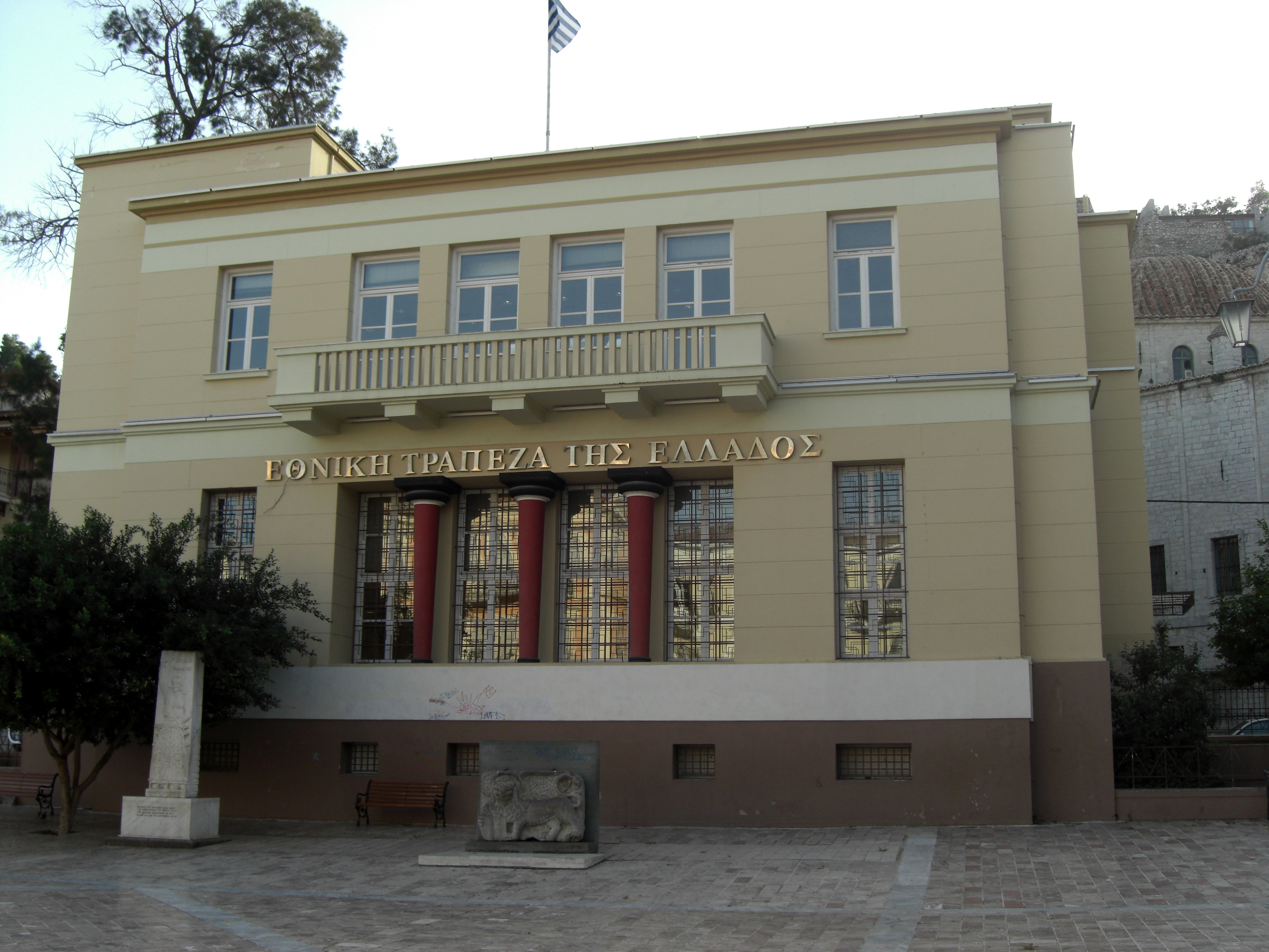 "The National Bank of Greece building in Nafplion, 25 November 2008."